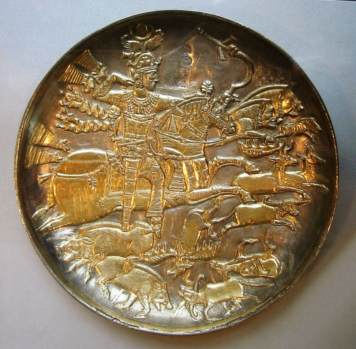 Hunting scene depicting King Chosroes II. 7th century Sassanide art. Cabinet des Medailles, Paris. Personal photograph 2006.